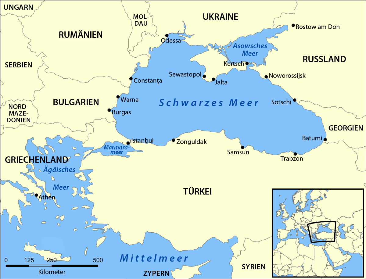 Map of the Black Sea